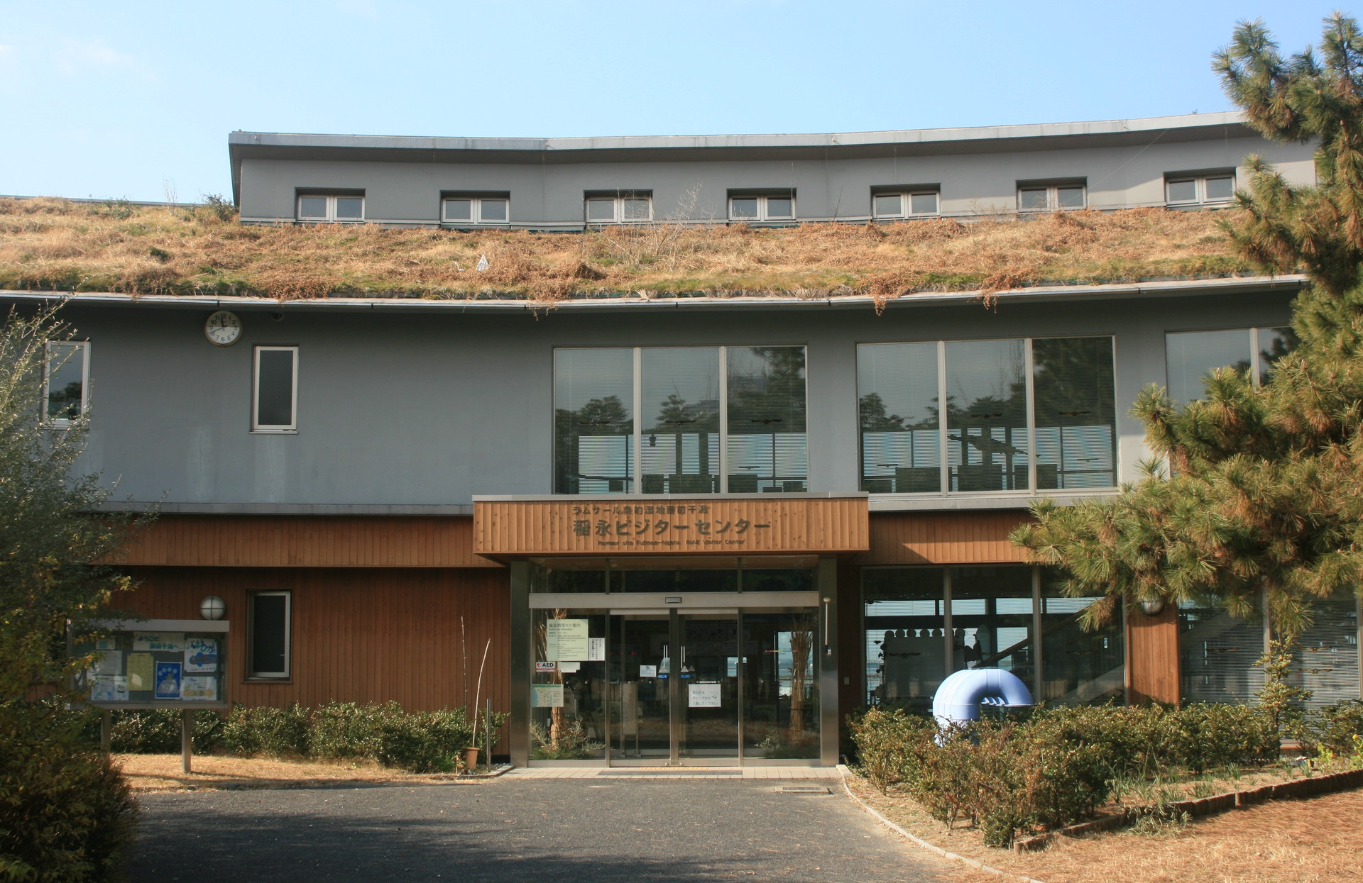 INAE Visitor Center in Port of Nagoya